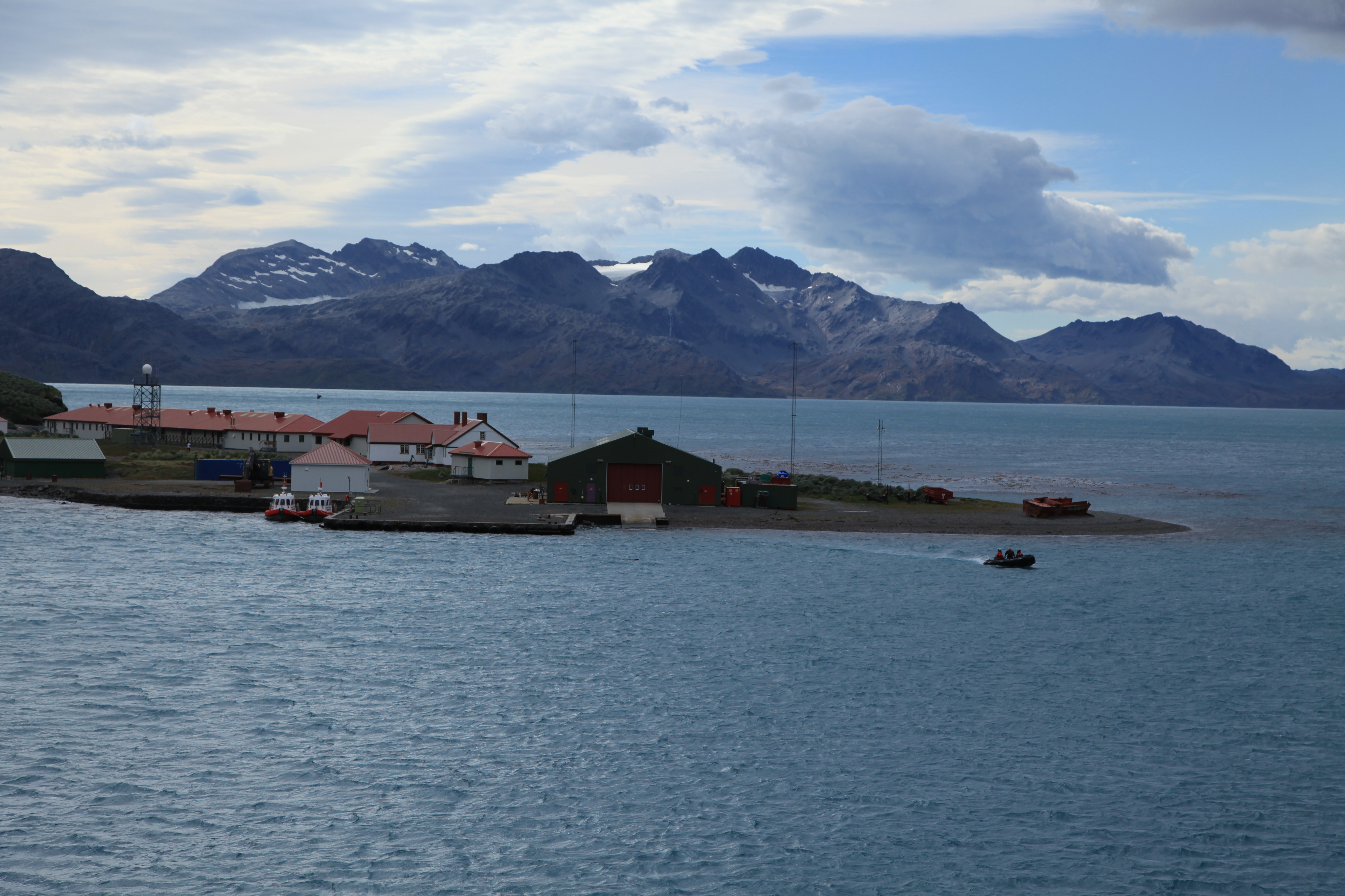 The Zodiac here is fetching South Georgia government officials to inspect our cruise ship.